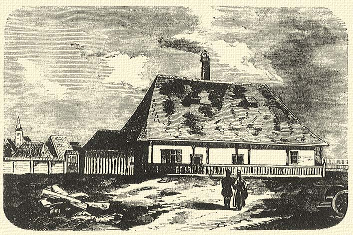 the former mansion of the Cserei family in Csíkrákos (Racu)